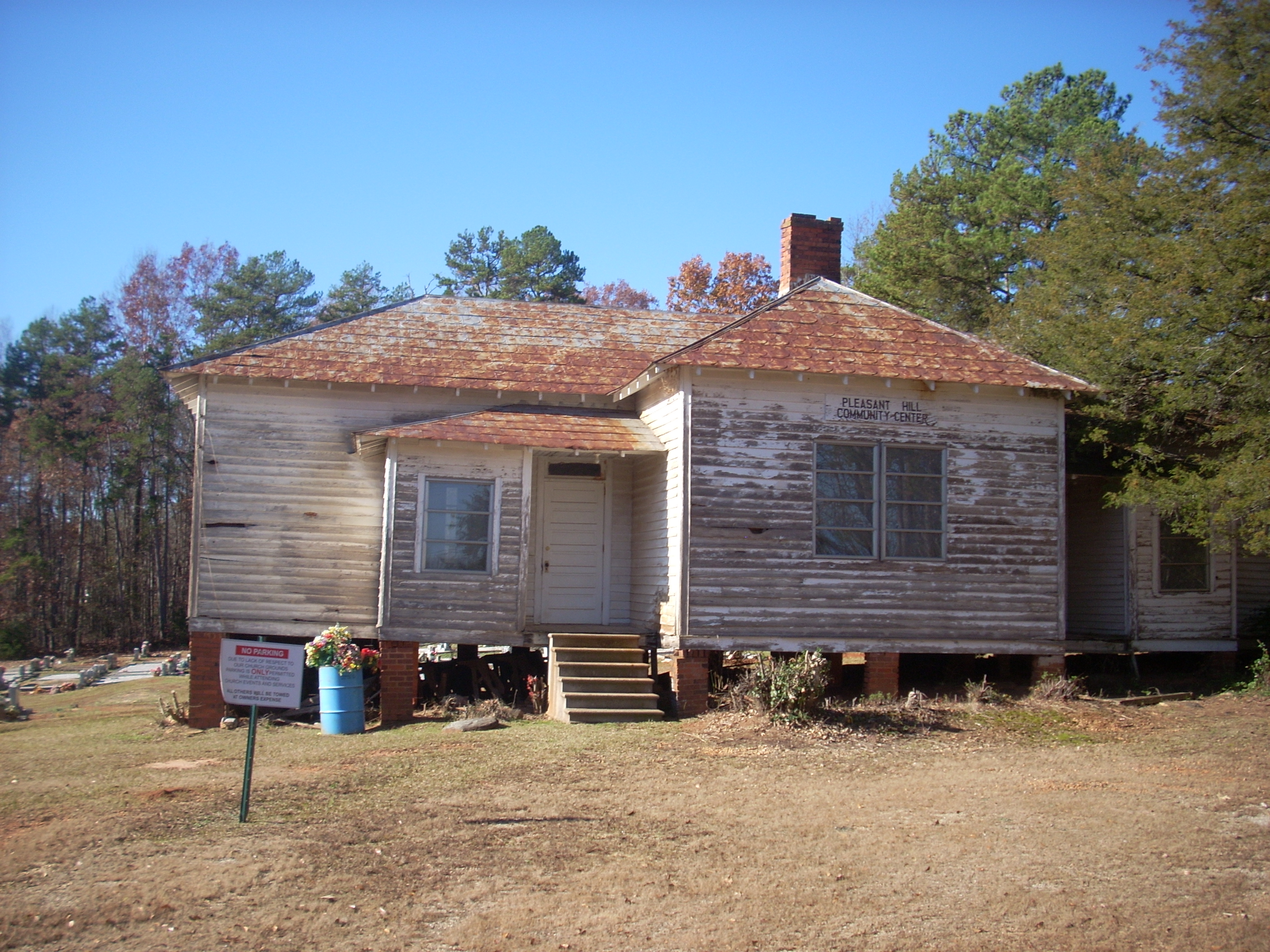 Retreat Rosenwald School, 150 Pleasant Circle, Westminster (Oconee County, South Carolina) National Register of Historic Places No. 11000676 Object location34° 38′ 28″ N, 83° 03′ 50″ W